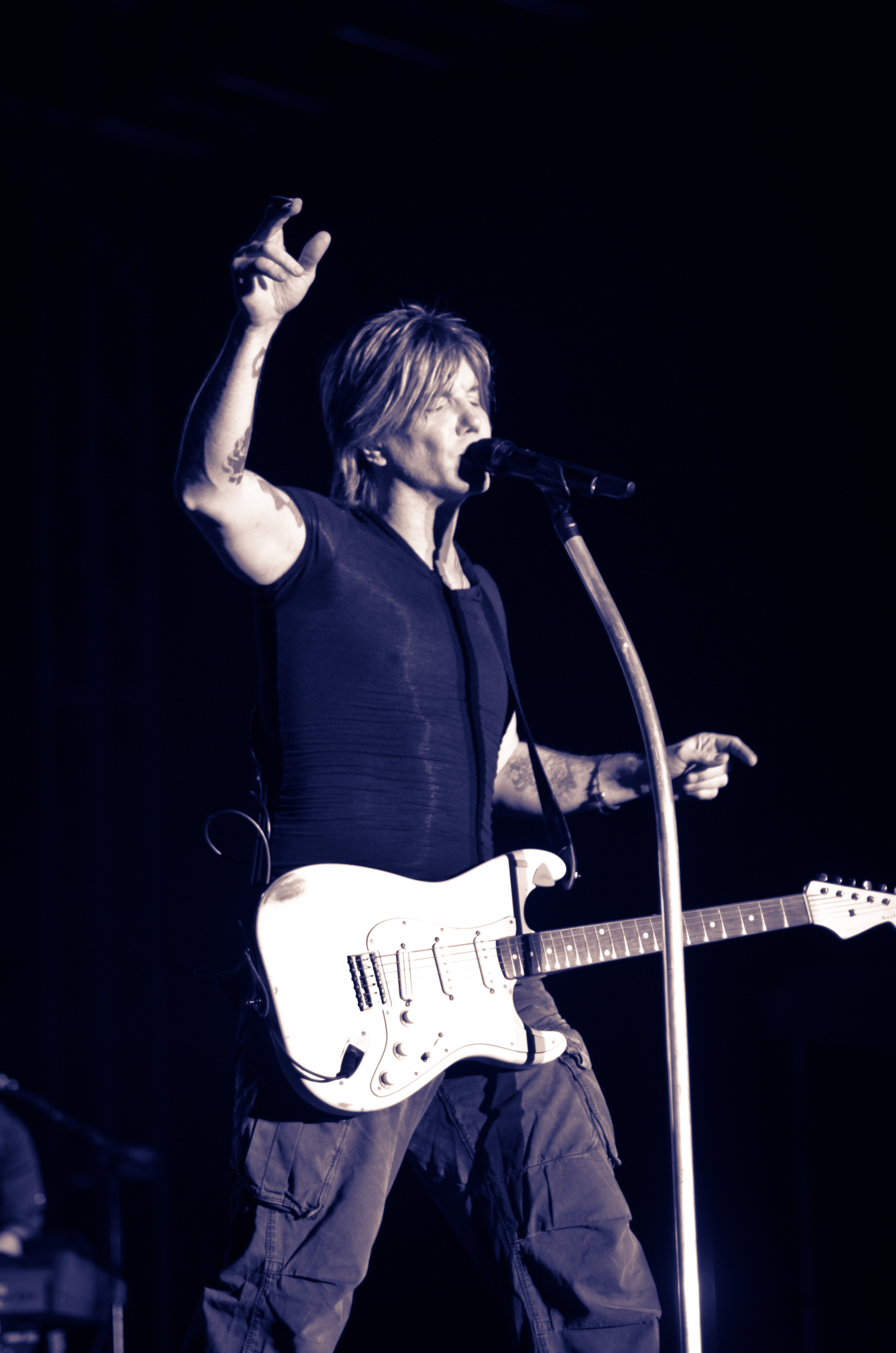 Goo Goo Dolls in Concert at Divots in Norfolk, NE